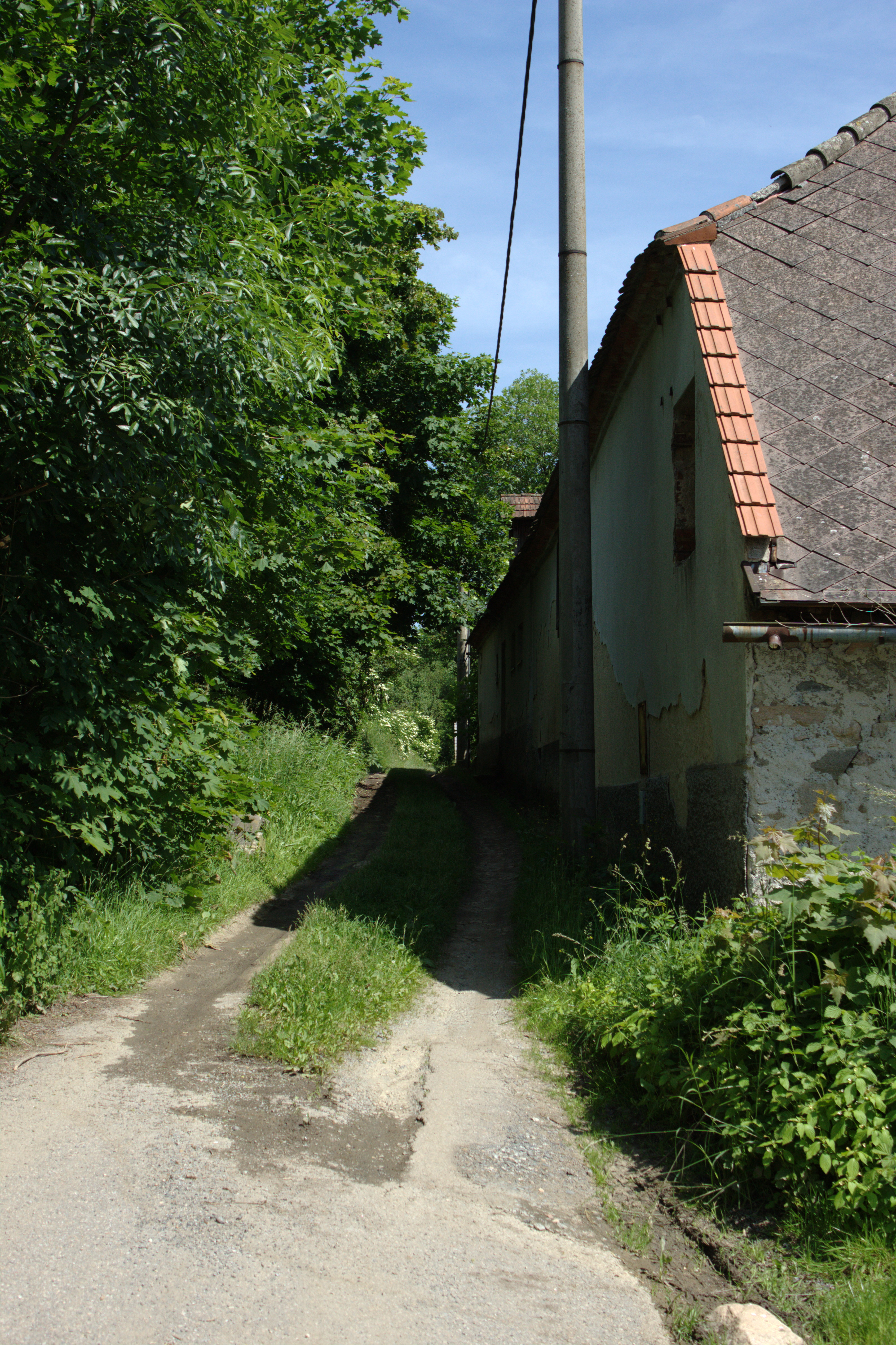 A path in Hůrka settlement, situated south from Konopiště Castle, Benešov District, CZ